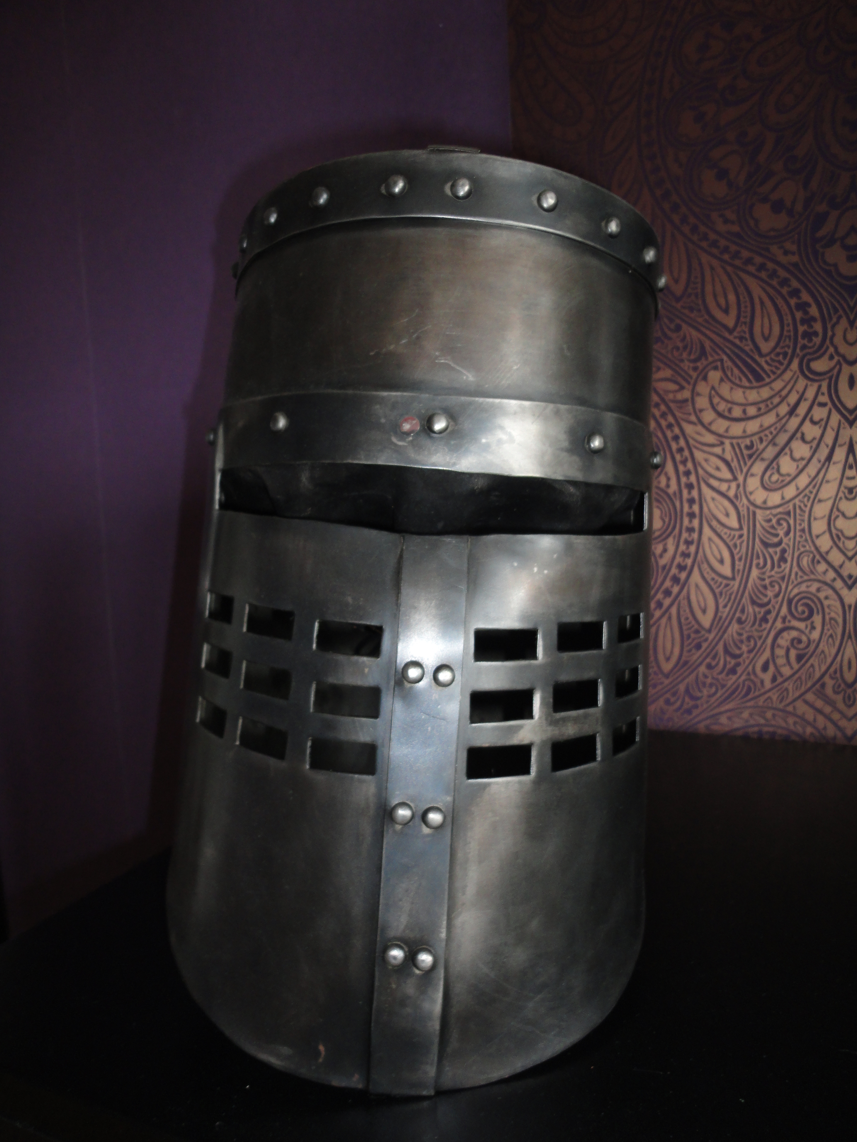 Helmet of the Black Knight from the film Monty Python and the Holy Grail.